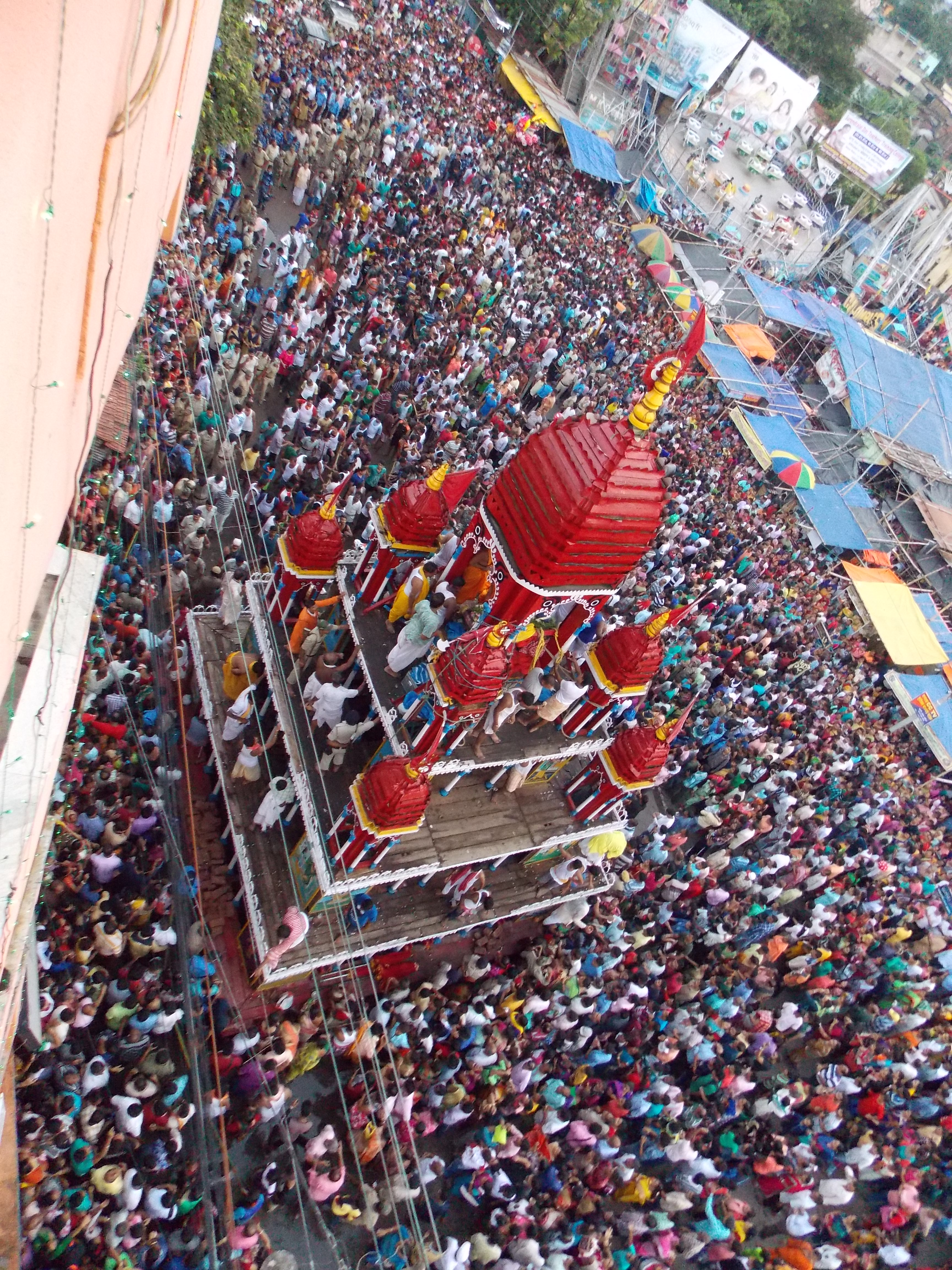 Rathayatra of Mahesh) ভারতের দ্বিতীয় প্রাচীনতম এবং বাংলার প্রাচীনতম রথযাত্রা উৎসব।[১] এই উৎসব ১৩৯৬ খ্রিস্টাব্দ থেকে অনুষ্ঠিত হয়ে আসছে।[২] এটি পশ্চিমবঙ্গের শ্রীরামপুর শহরের মাহেশে হয়। রথযাত্রার সময় মাহেশে এক মাস ধরে মেলা চলে। শ্রীরামপুরের মাহেশ জগন্নাথ দেবের মূল মন্দির থেকে মাহেশেরই গুন্ডিচা মন্দির (মাসীরবাড়ী) অবধি জগন্নাথ, বলরাম ও সুভদ্রার বিশাল রথটি টেনে নিয়ে যাওয়া হয়। উল্টোরথের দিন আবার রথটিকে জগন্নাথ মন্দিরে ফিরিয়ে আনা হয়।